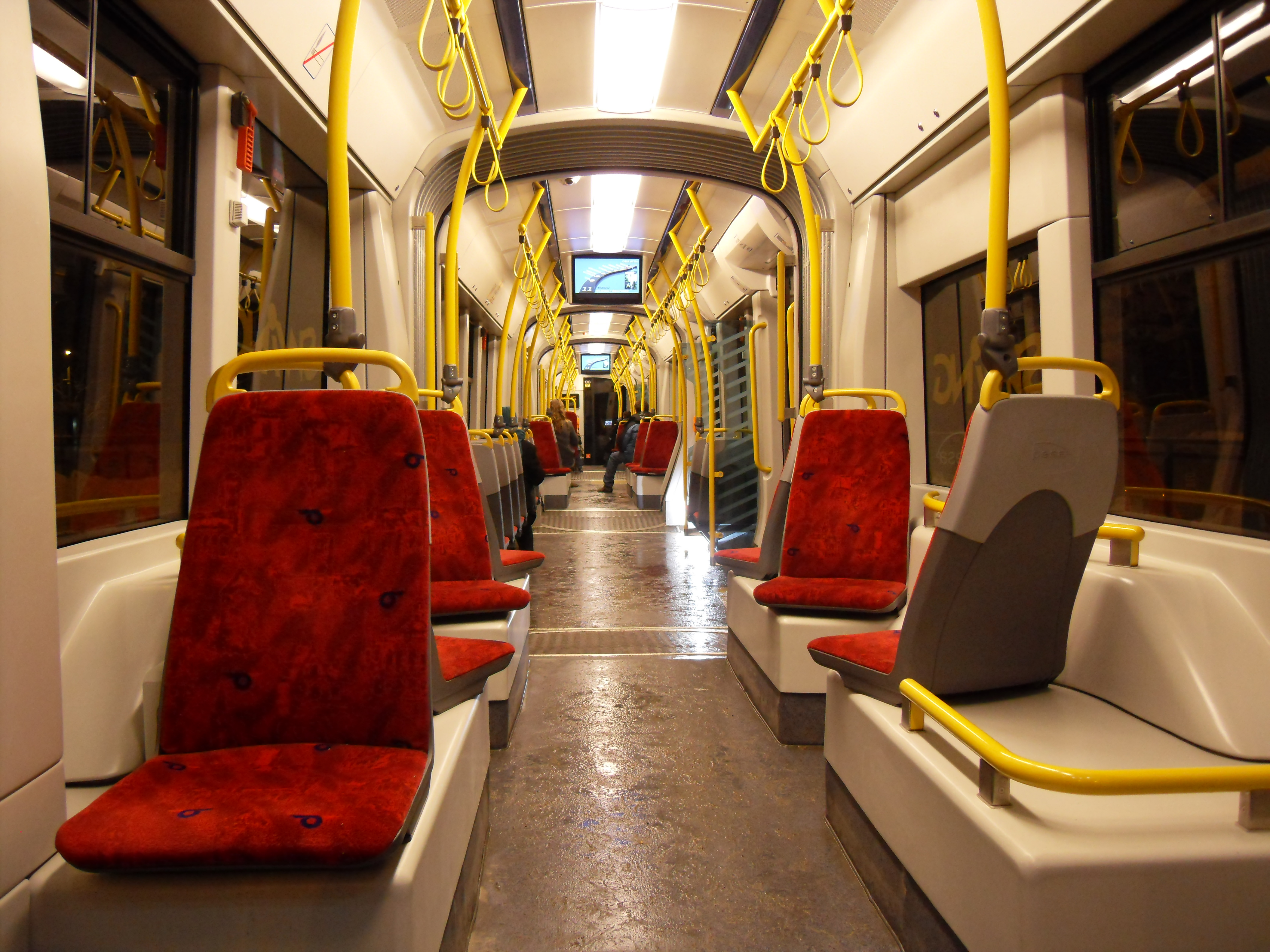 A PESA 120Na tram in Gdańsk (Poland) - interior.